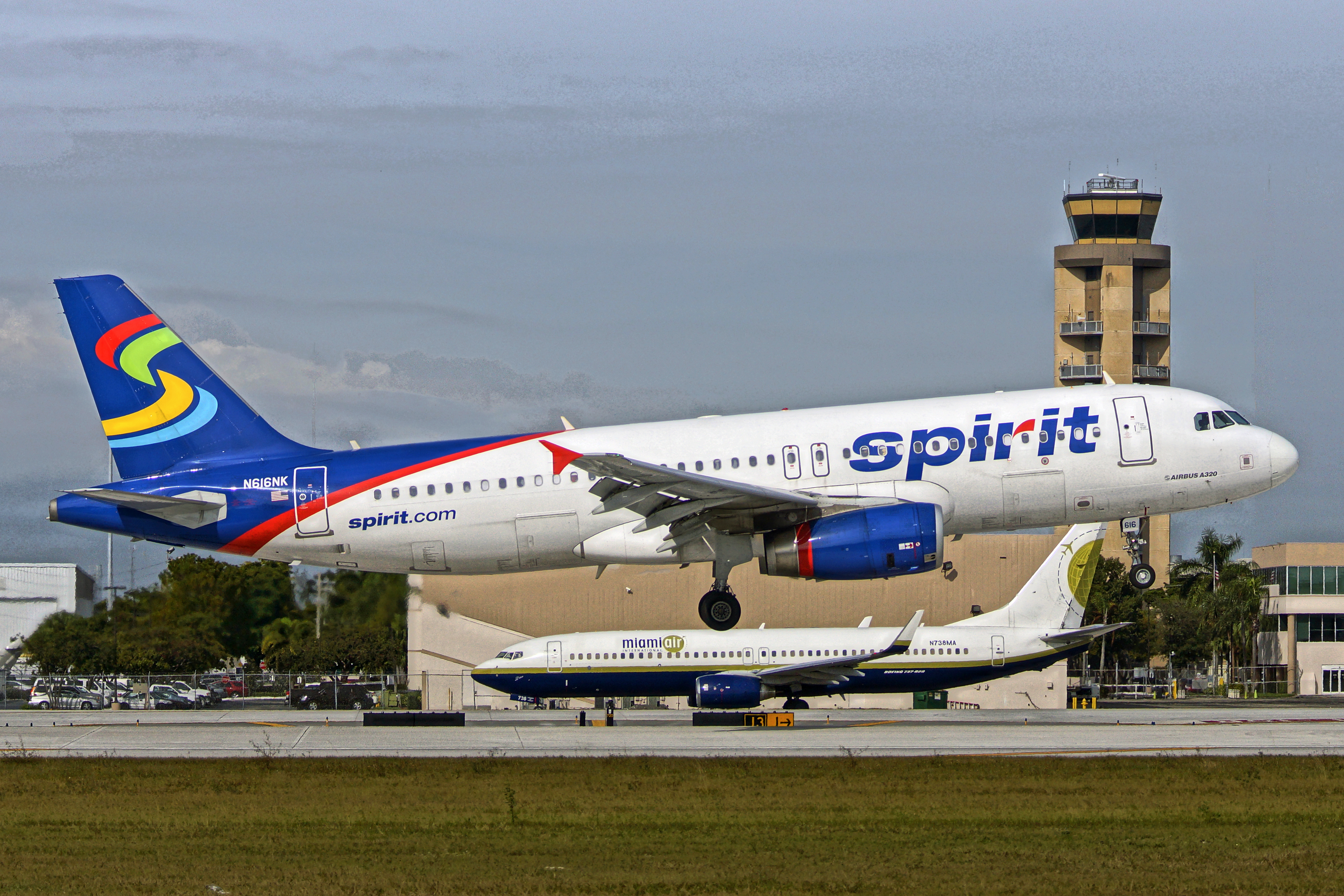 N616NK Over Miami Air FLL 10R JTPI 4x6 9251